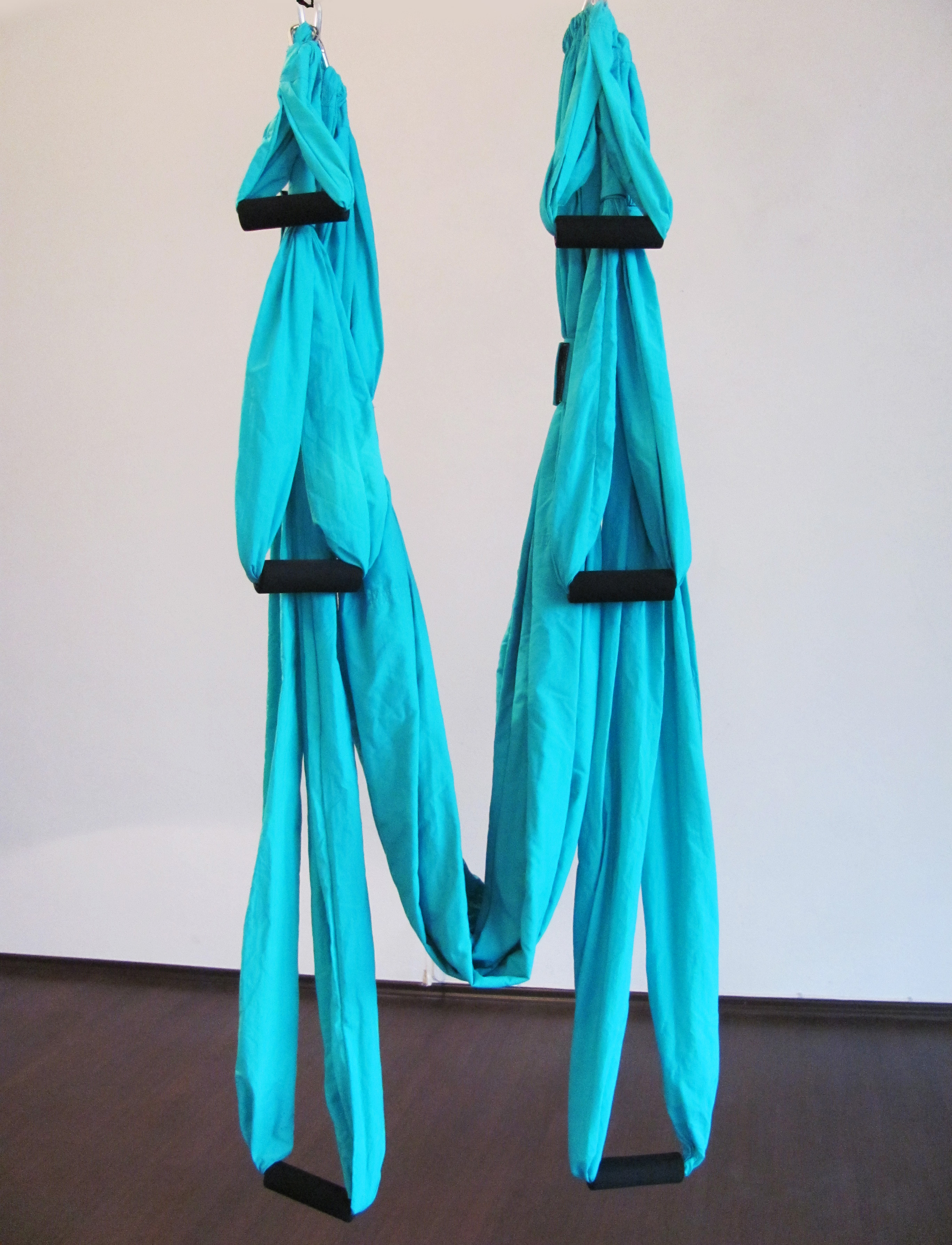 Suspension Yoga Swing for inversion therapy, back and neck care, aerial yoga, aerial fitness, suspension training.